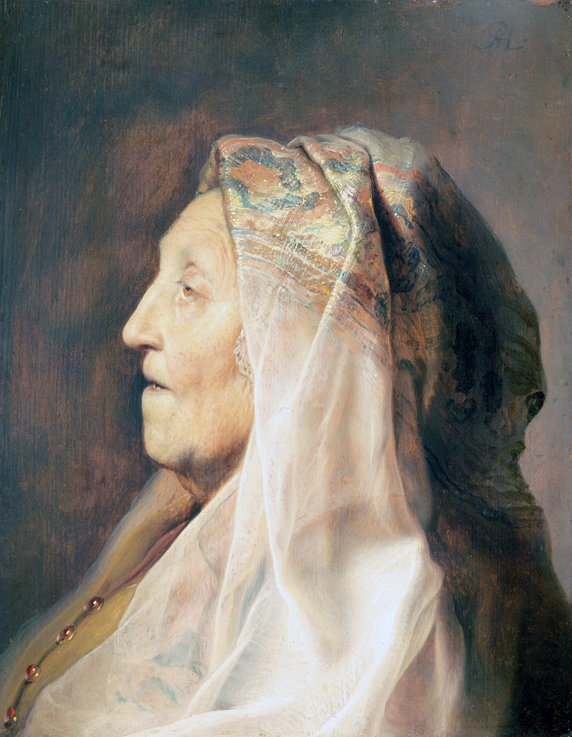 Profile Head of an Old Woman